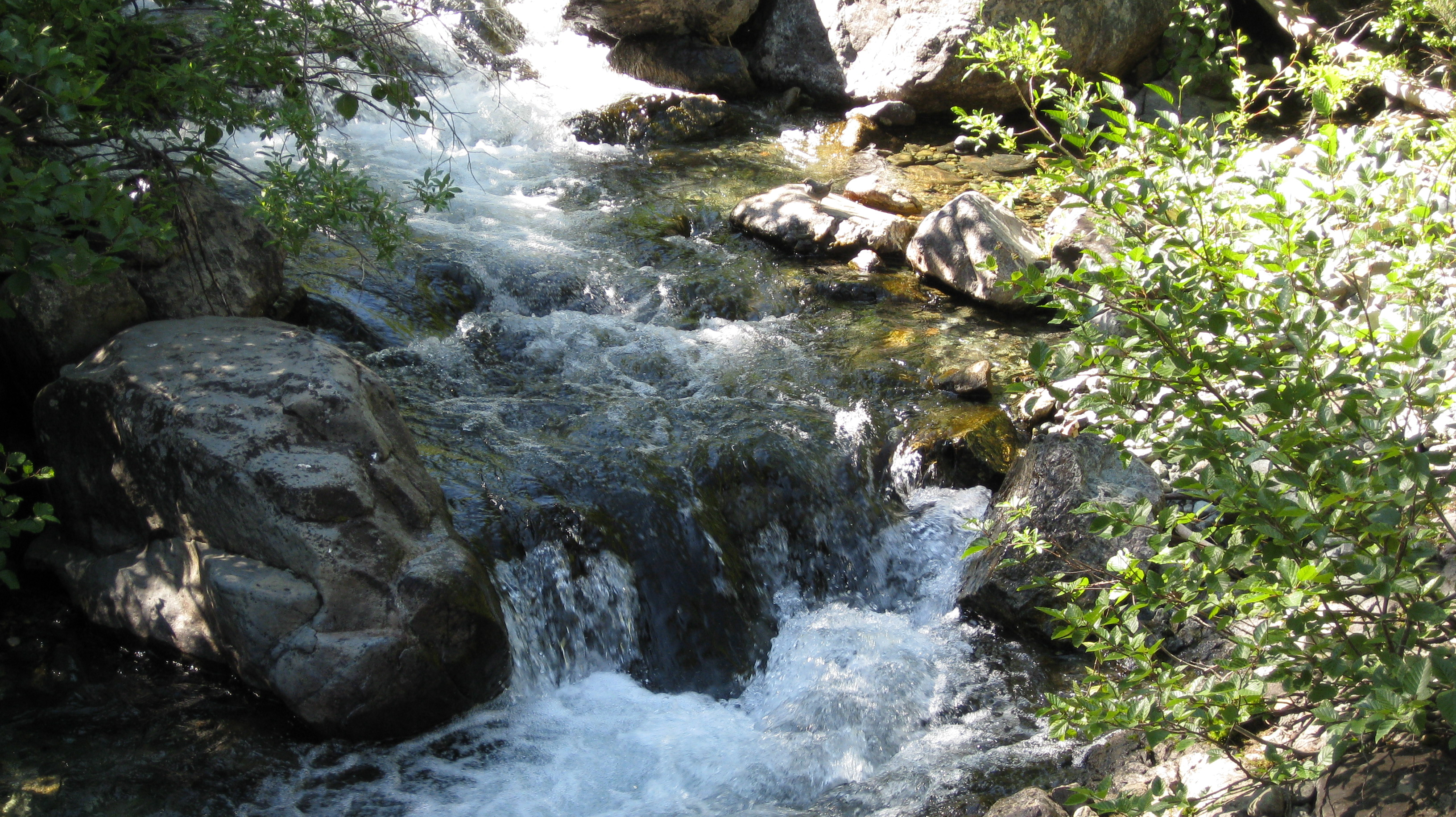 American Dipper Cinclus mexicanus